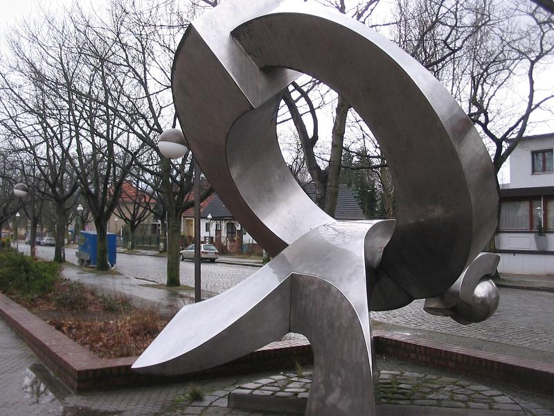 Sculpture Ikarus, created by Volkmar Haase in 1983, Holzmannstraße in front of the Marianne-Cohn-Schule (school), in Berlin-Tempelhof